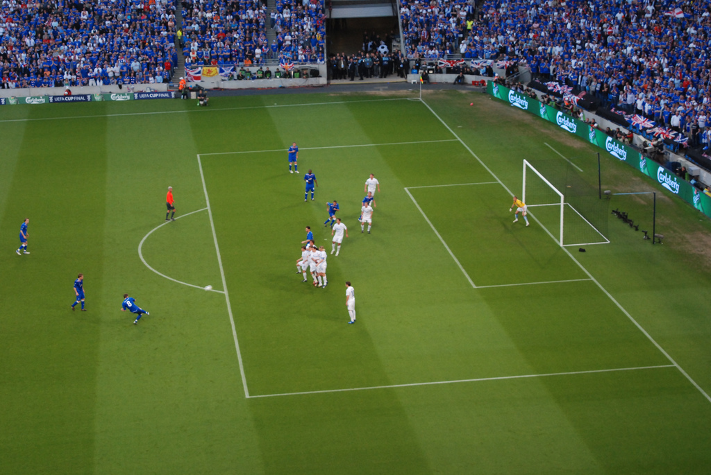 Rangers vs. Zenit St. Petersburg in the 2008 UEFA Cup Final.